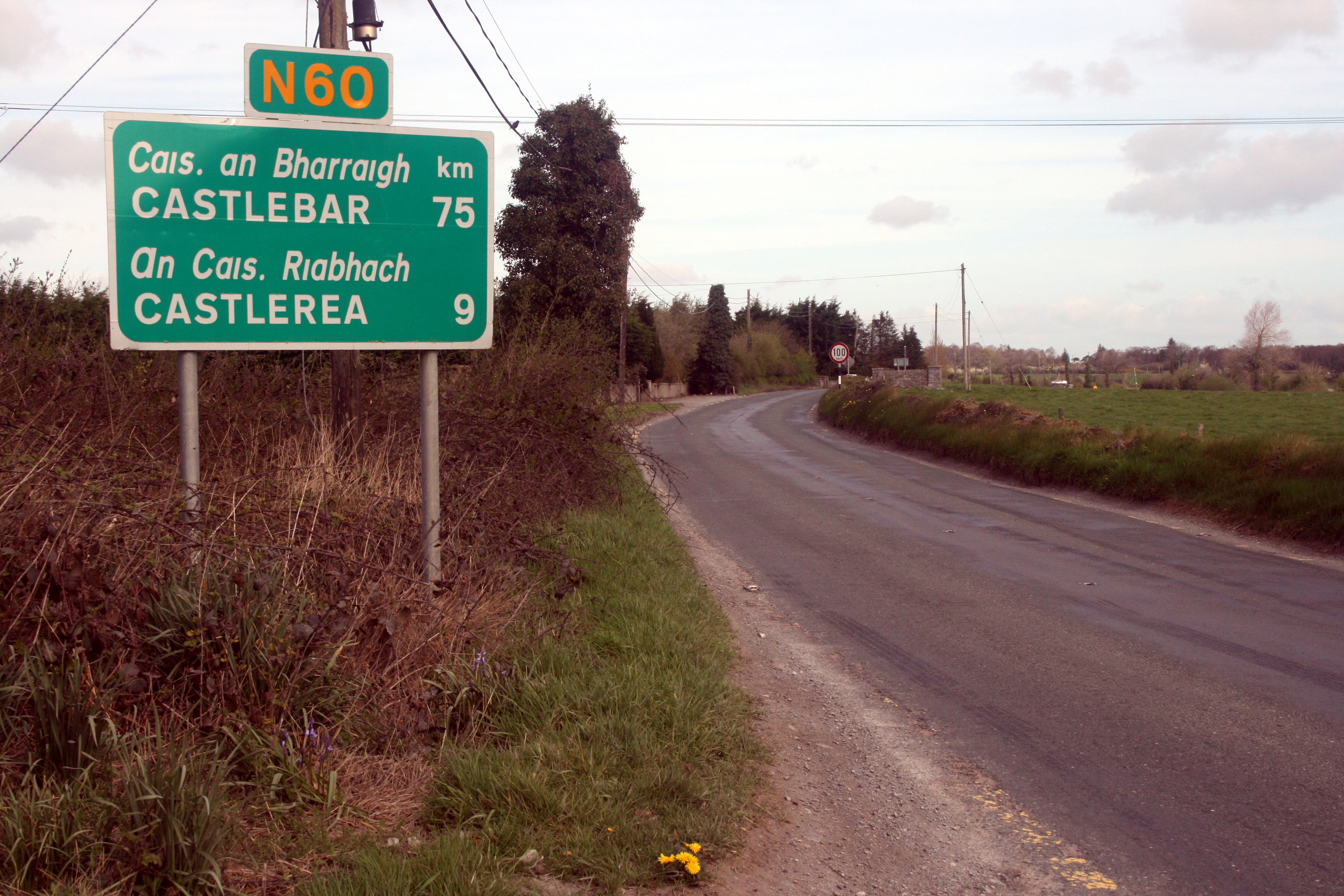 Sign on the N60 national secondary road heading north from Ballymoe, County Galway in Ireland.